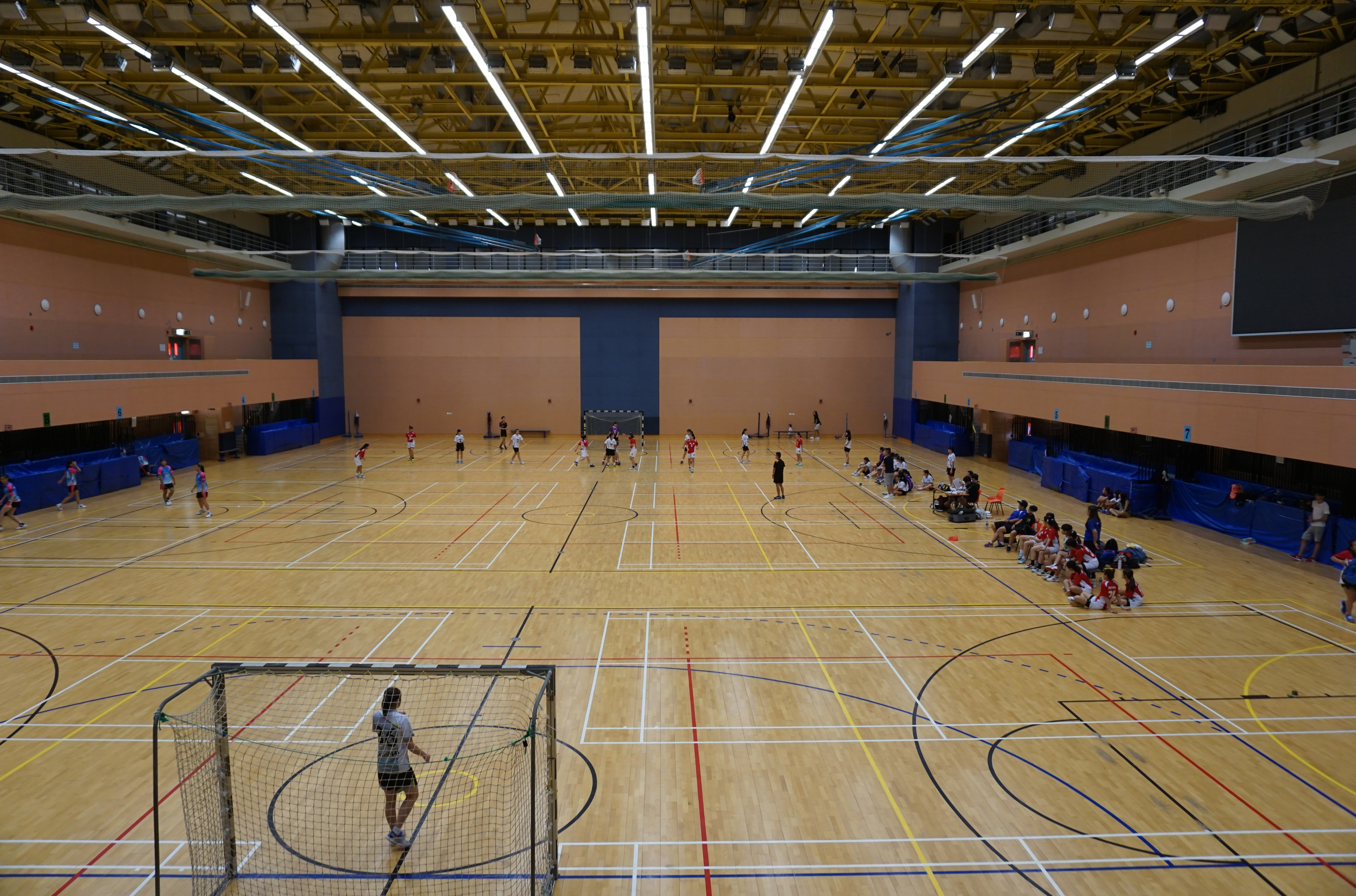 Sun Yat Sen Memorial Park Sports Centre in Sai Ying Pun, Hong Kong.